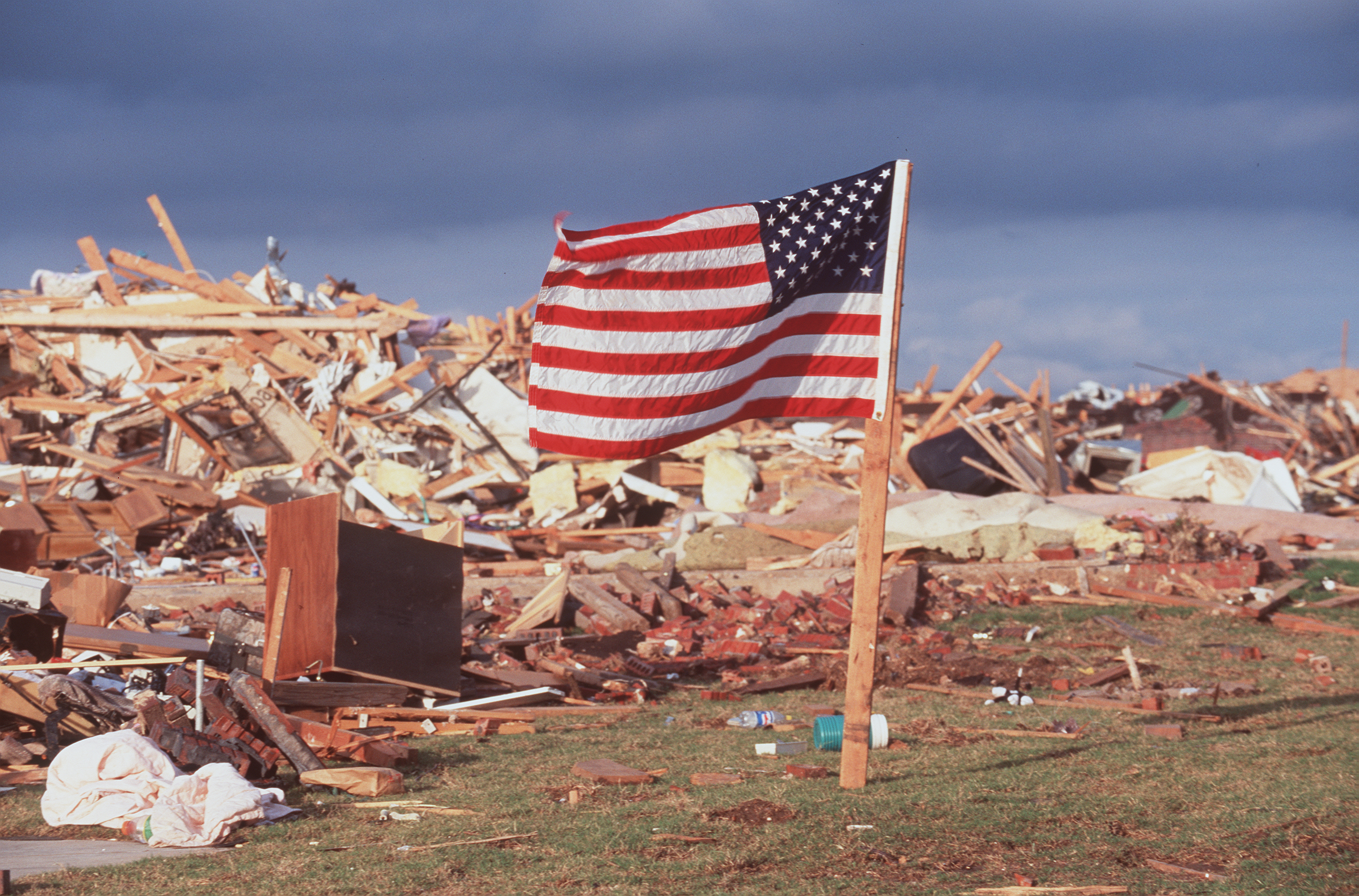 Oklahoma, May 4, 1999 -- The tornado wrought incredible devastation to homes, businesses and personal property. Thirty eight people were killed in Oklahoma and over 1,500 houses were destroyed. Photo by Andrea Booher/ FEMA News Photo